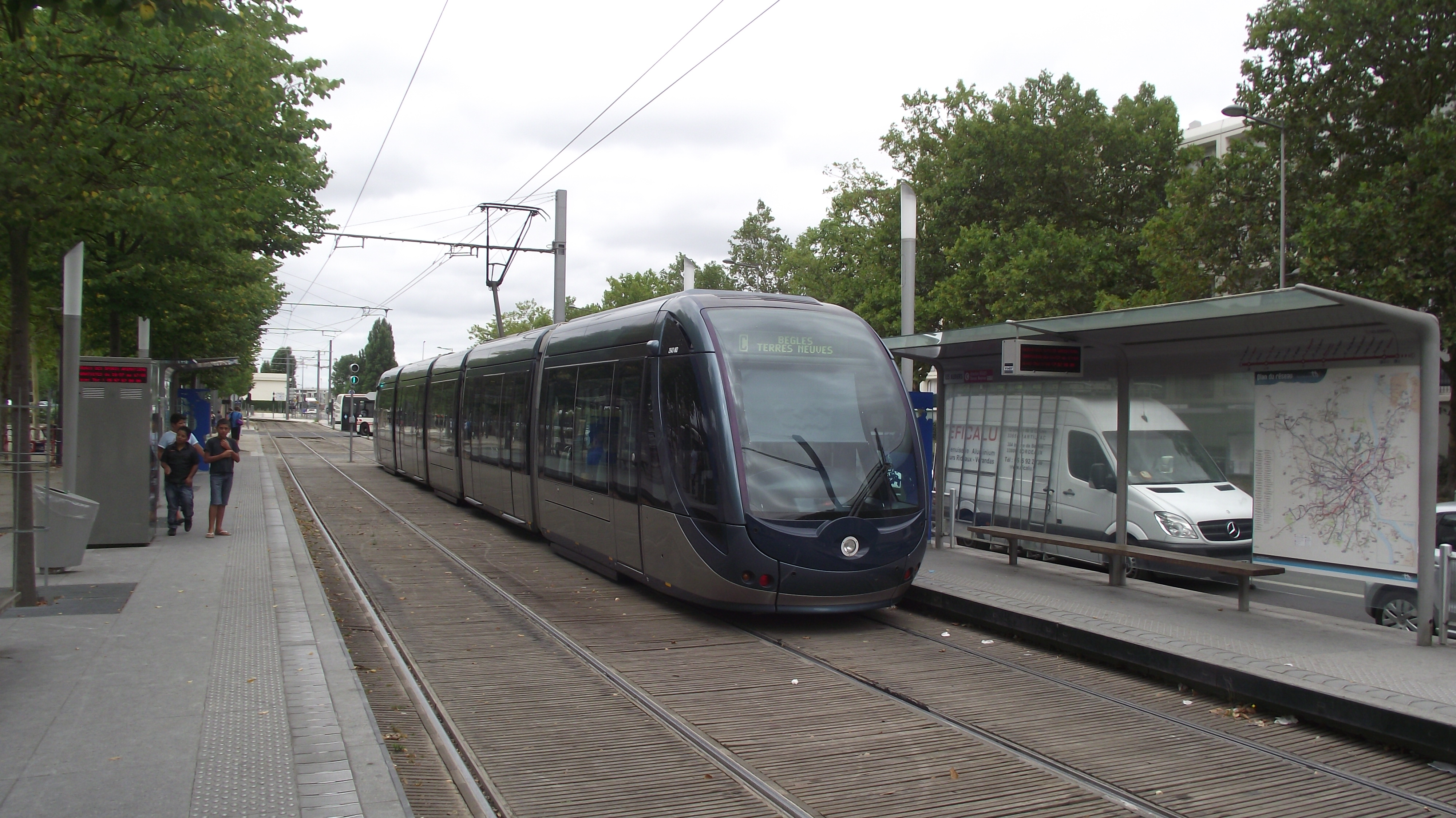 Tram endpoint line C Les Aubiers